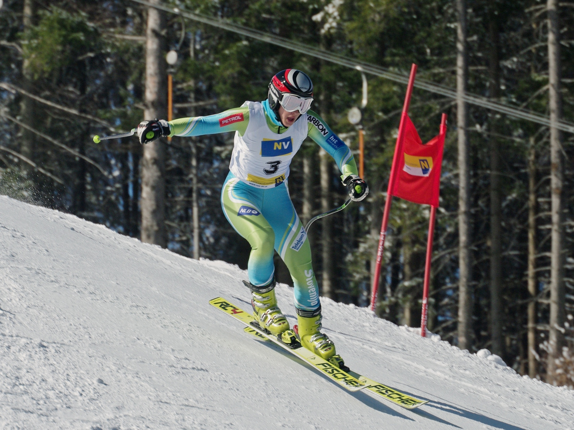 Slovenian alpine skier Tina Robnik in the FIS Super-G in Lackenhof, Austria, on 3 March 2010.